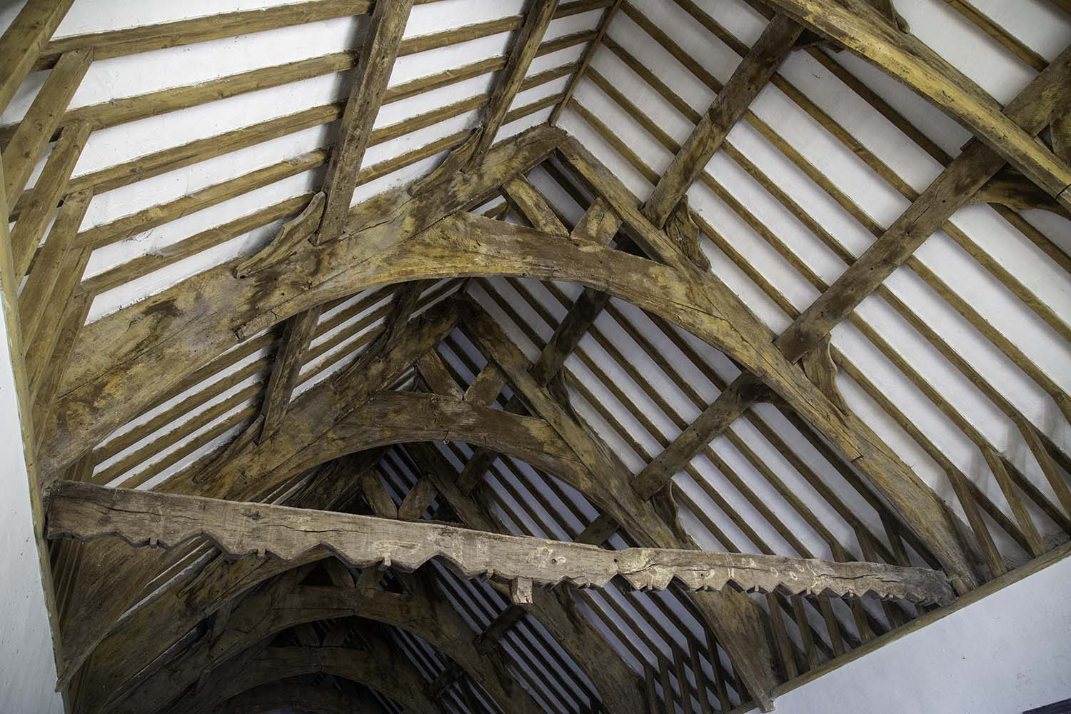 Now in the care of Friends of Friendless Churches.